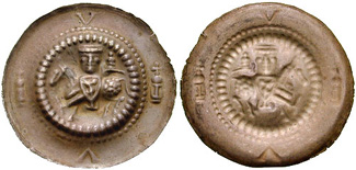 GERMANY, Gotha. Albrecht der Unartige. 1265-1314. AR Bracteate (0.39 gm). Knight with shield on horseback left, outside border / V tower V tower. Bonhoff 1316; Löbbecke 783. Toned EF. $475.